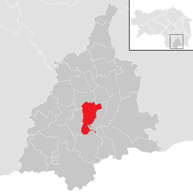 District Leibnitz